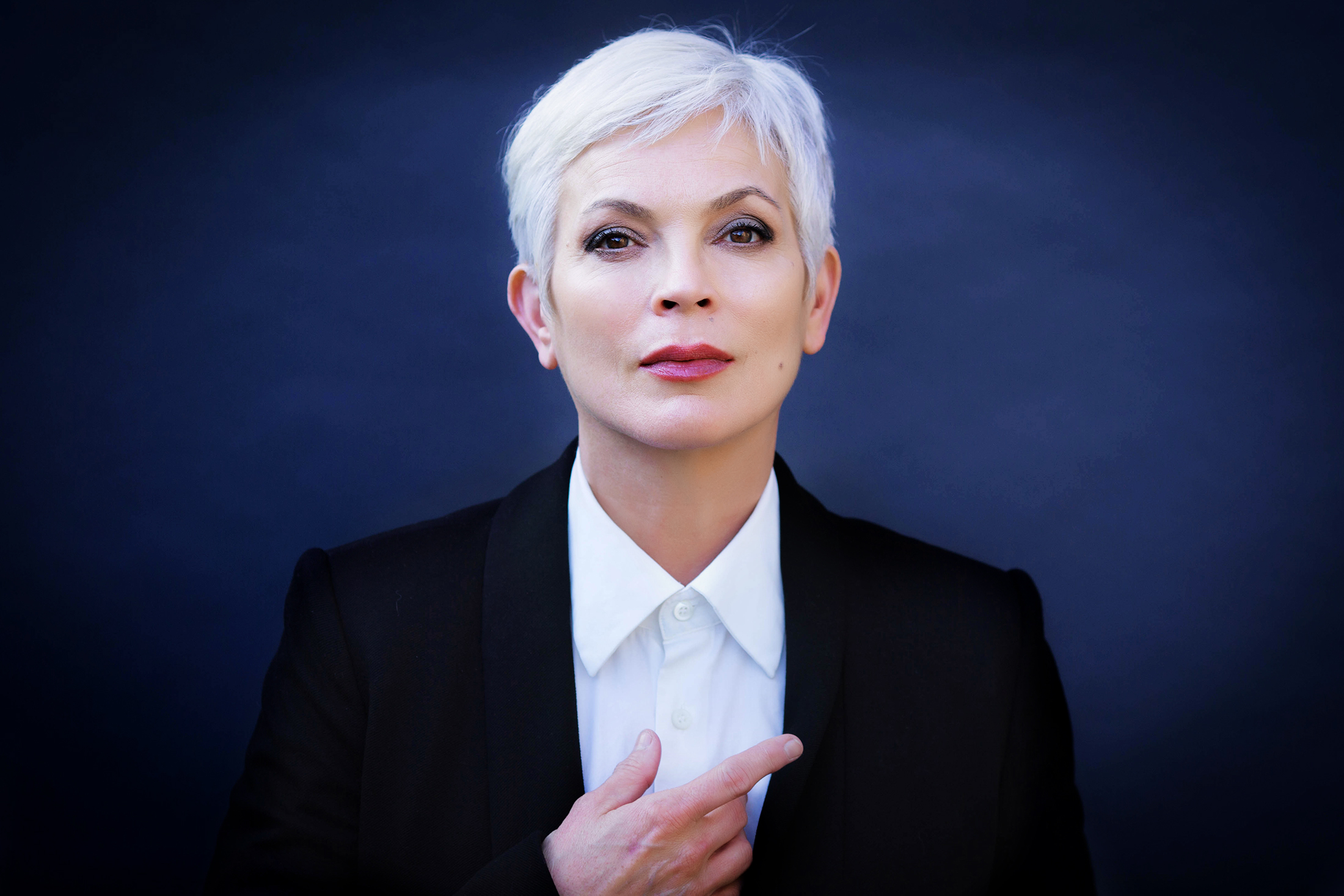 One of my newest pics taken in January 2016